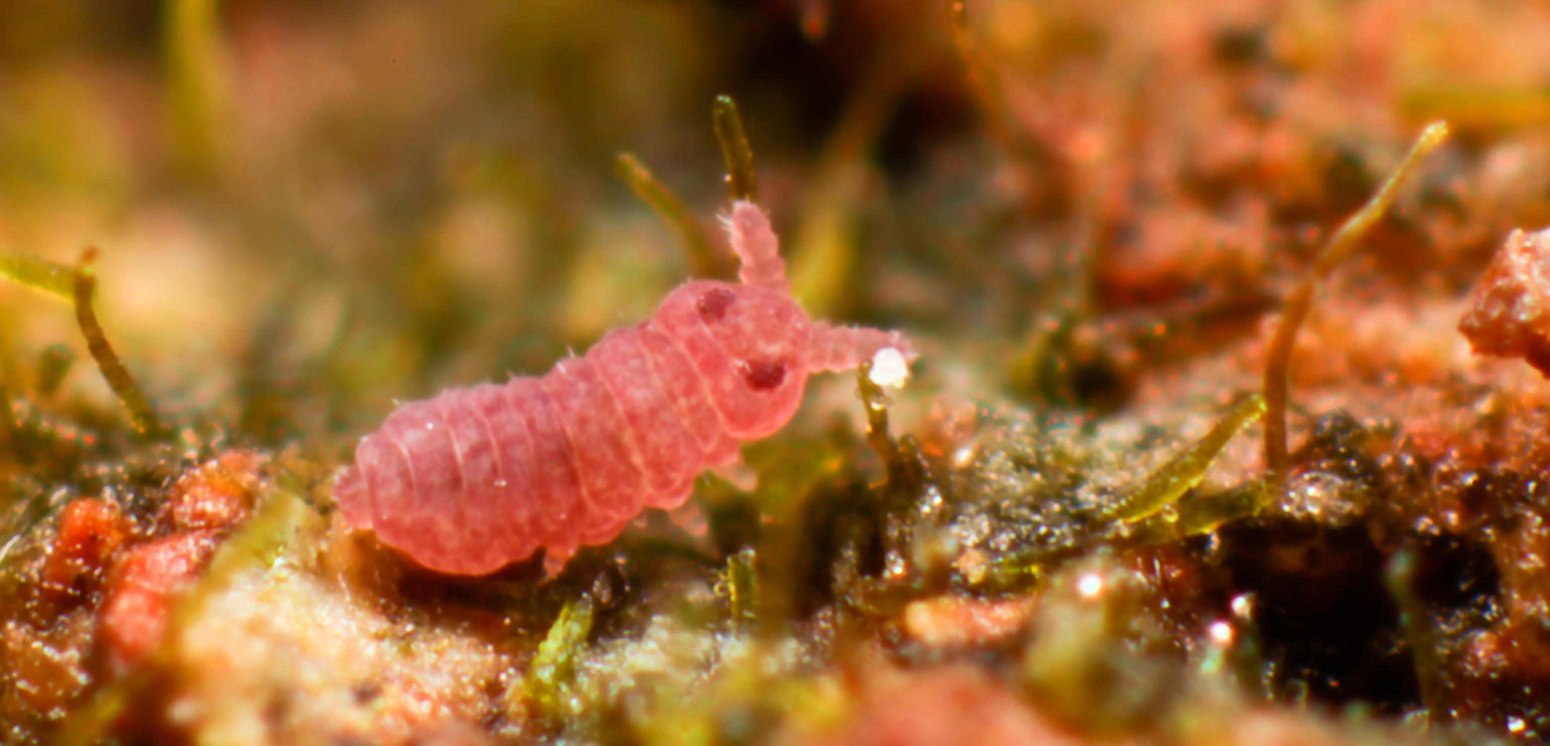 Brachystomella parvula juvenile from the UK.